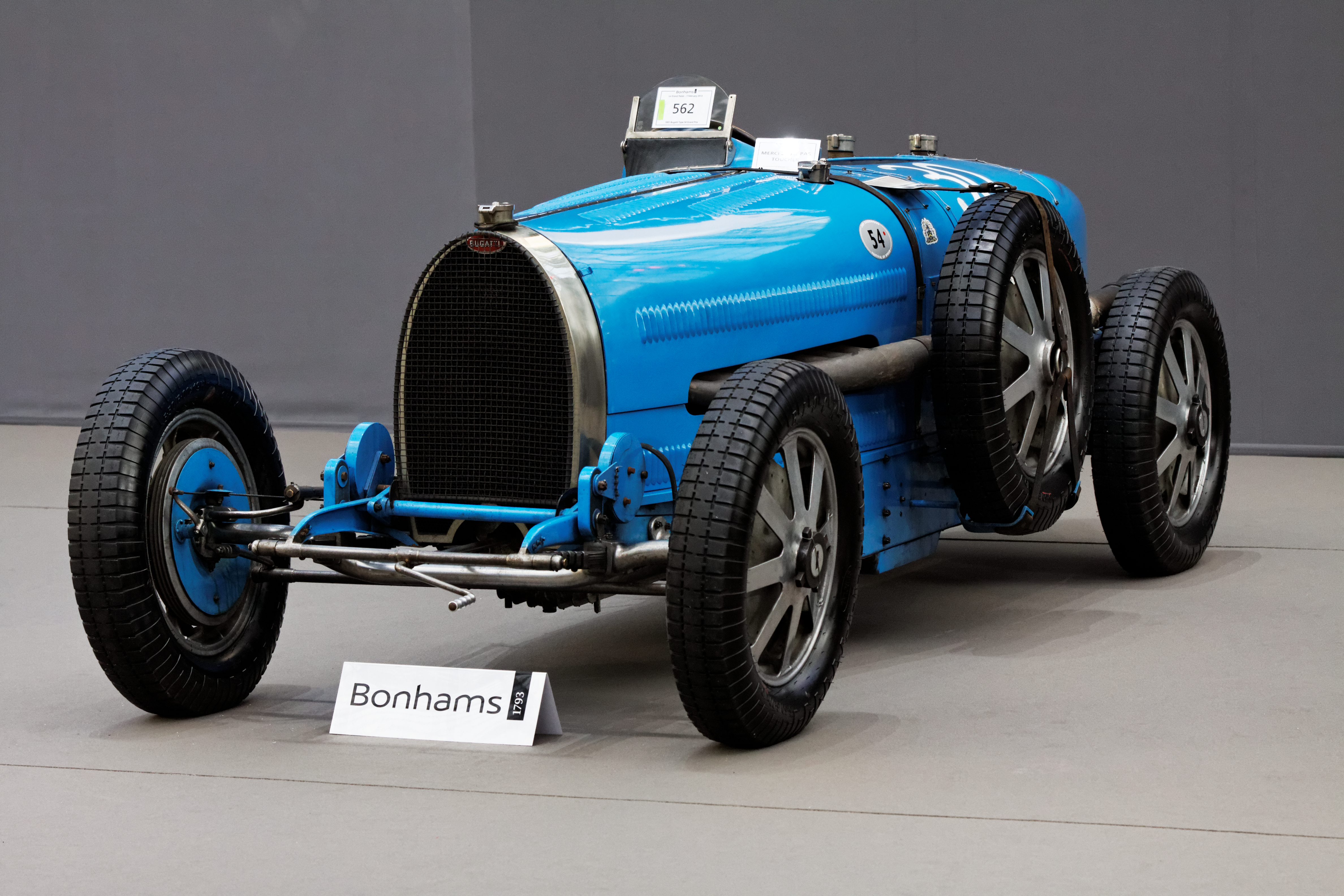 Une Bugatti type 54 grand Prix de 1931.